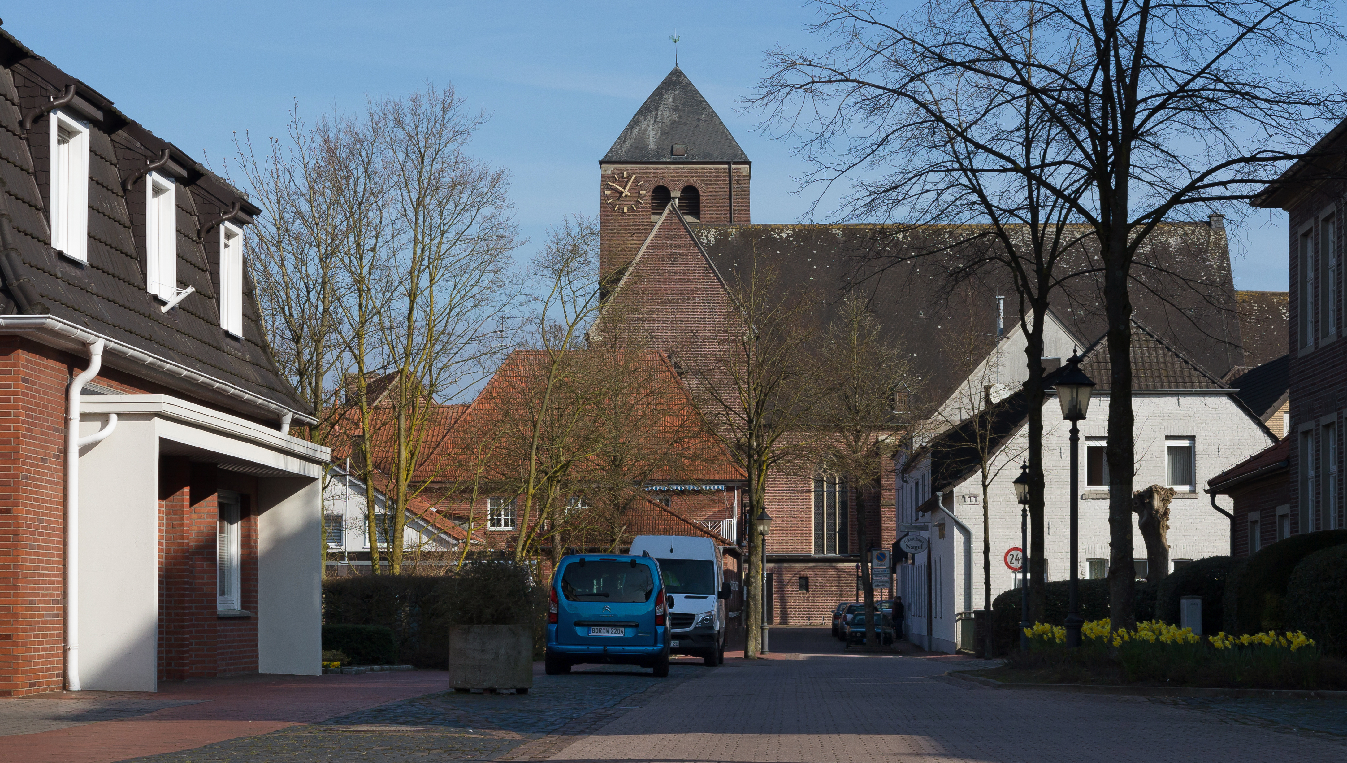 Südlohn, catholic Pfarrkirche Sankt Vitus in the streetThis is a photograph of an architectural monument., no. 1